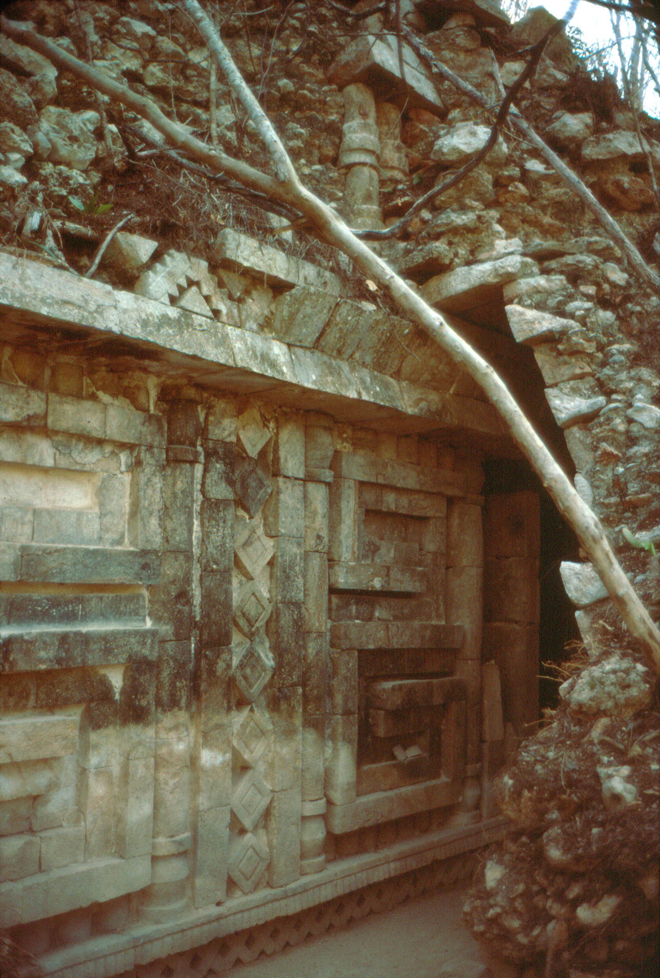 Uxmal, Yucatan, Mexico: Chanchimez building.